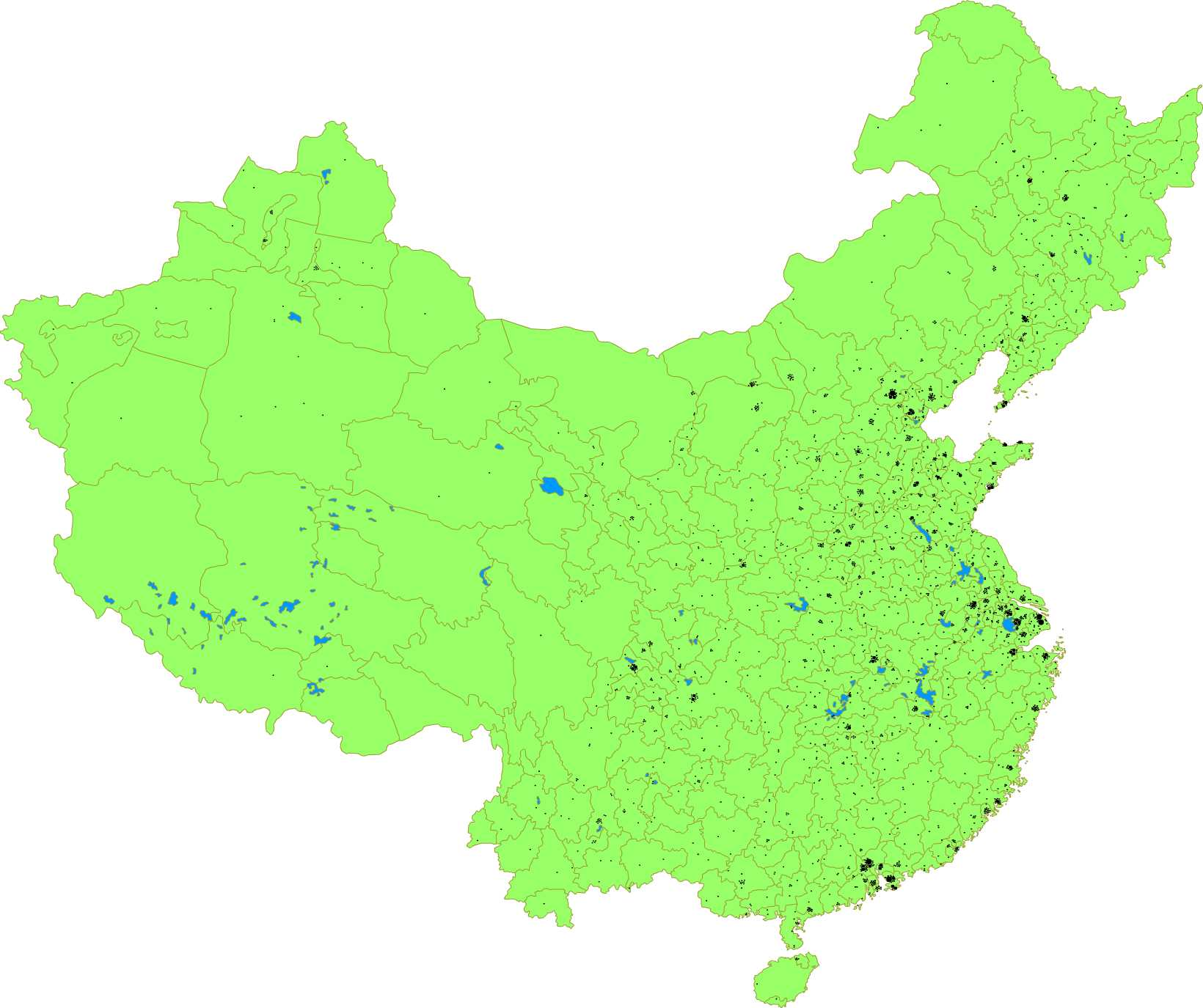 GDP distribution in mainland China in 2007. Small dots indicate RMB10bln, medium dots indicate RMB100bln, large dots indicate RMB500bln. All values annual.